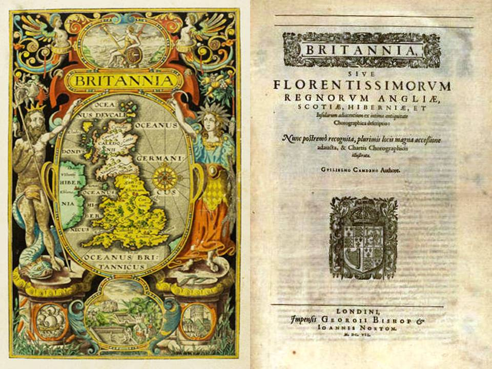 The title page of the first map edition of William Camden's Brittannia 1607